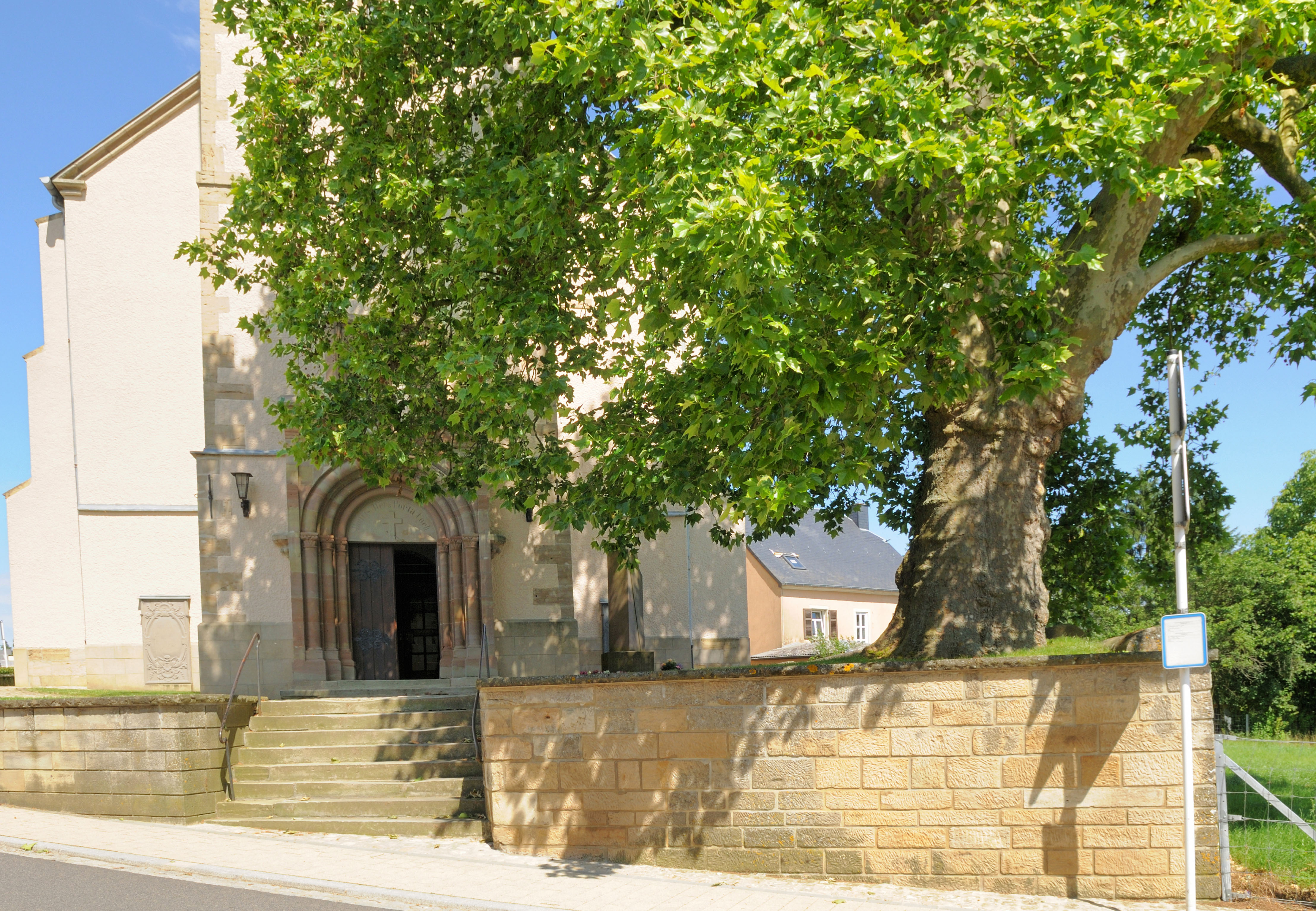 Plane tree close to the entry of the church in Tuntange, Luxembourg (country). This tree is ranked with the "Remarkable trees in Luxembourg".